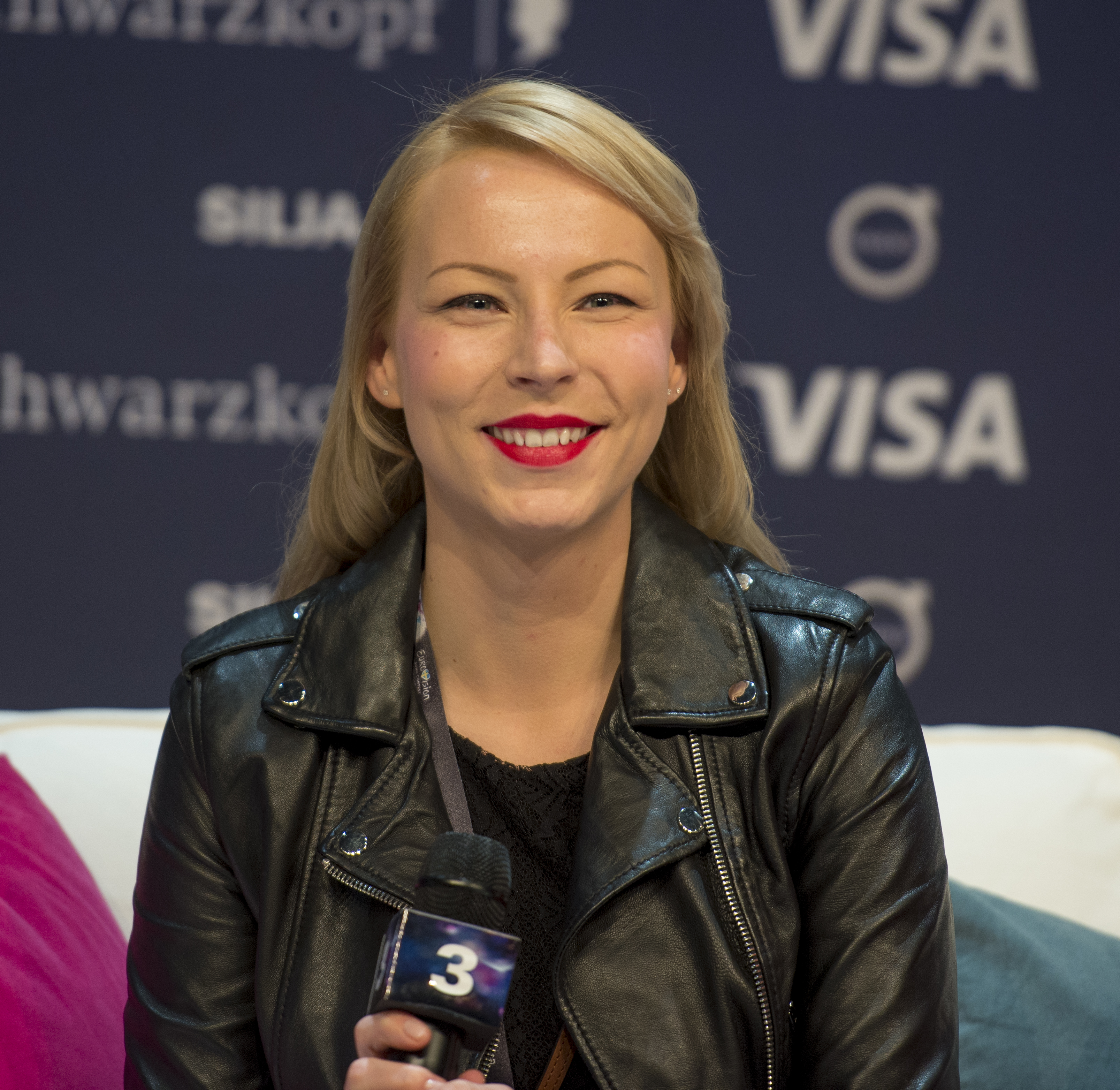 ManuElla at a Meet & Greet during the Eurovision Song Contest 2016 in Stockholm. (Help translate this text)